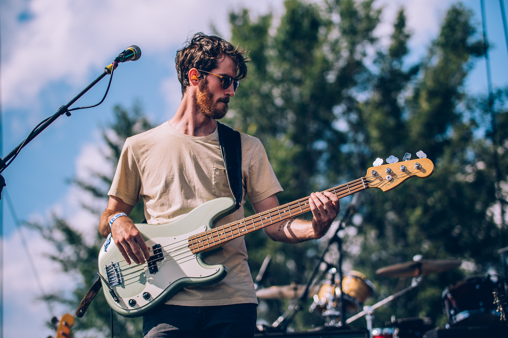 Michael Byrnes of Mt. Joy playing Bass PC: Kyle Long